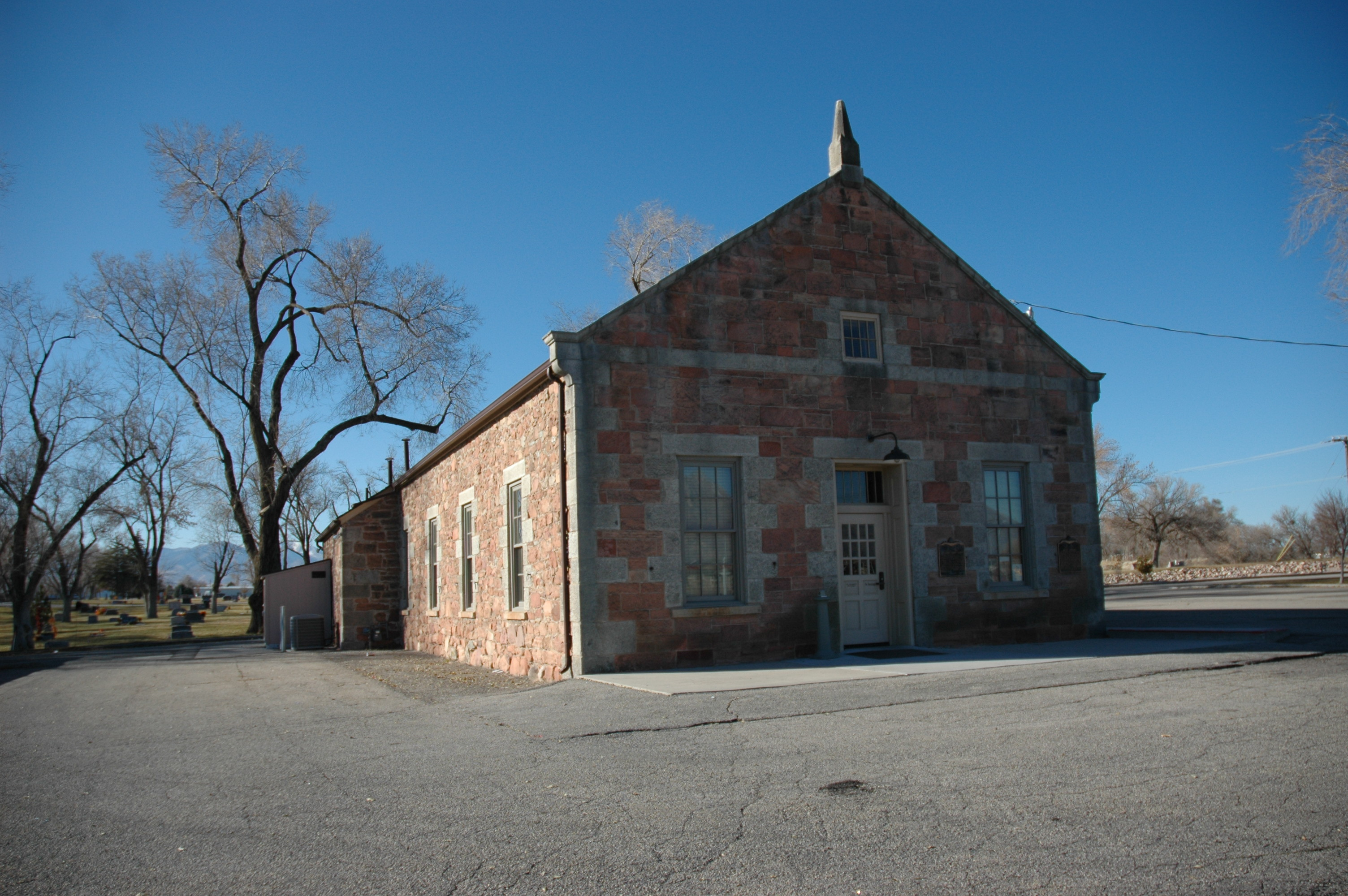 The West Jordan Ward Meetinghouse, a historic building in West Jordan, Utah, United States. Built as a meetinghouse of The Church of Jesus Christ of Latter-day Saints, it now houses the West Jordan museum of the Daughters of Utah Pioneers.